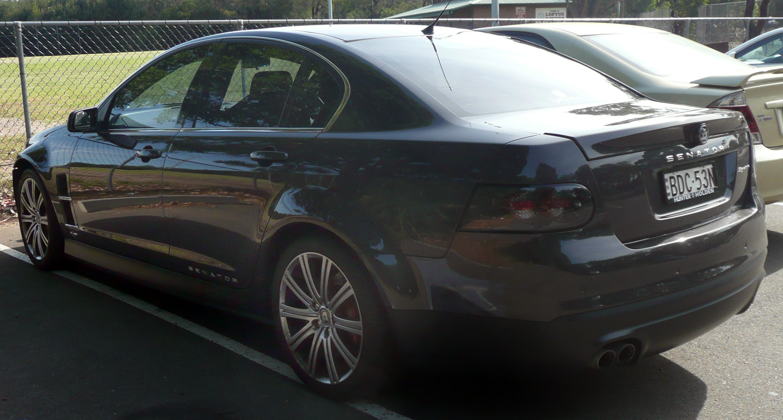 2007 HSV Senator (E Series) Signature sedan. Photographed in Loftus, New South Wales, Australia.